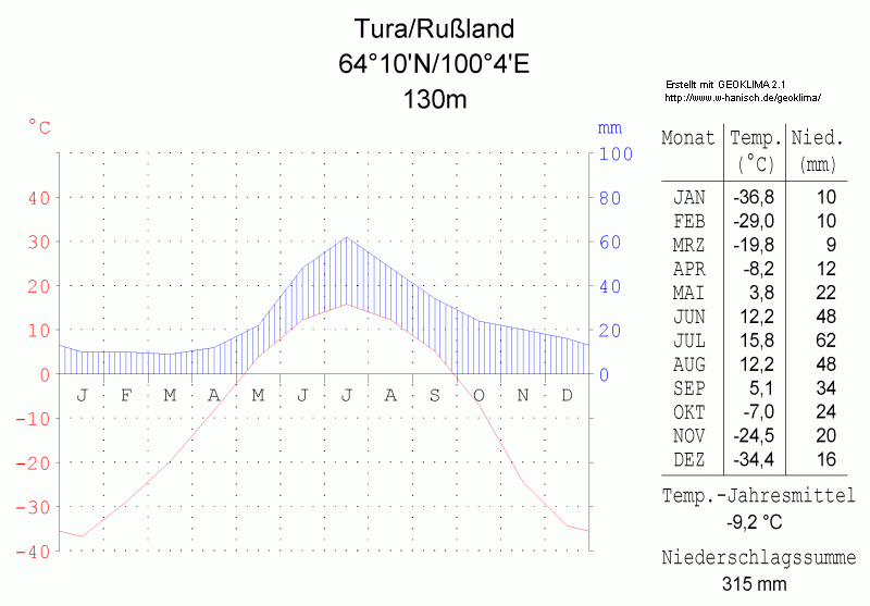 climate chart in the format by Walther and Lieth, metric, °Celsisus and millimeters, made with Geoklima 2.1